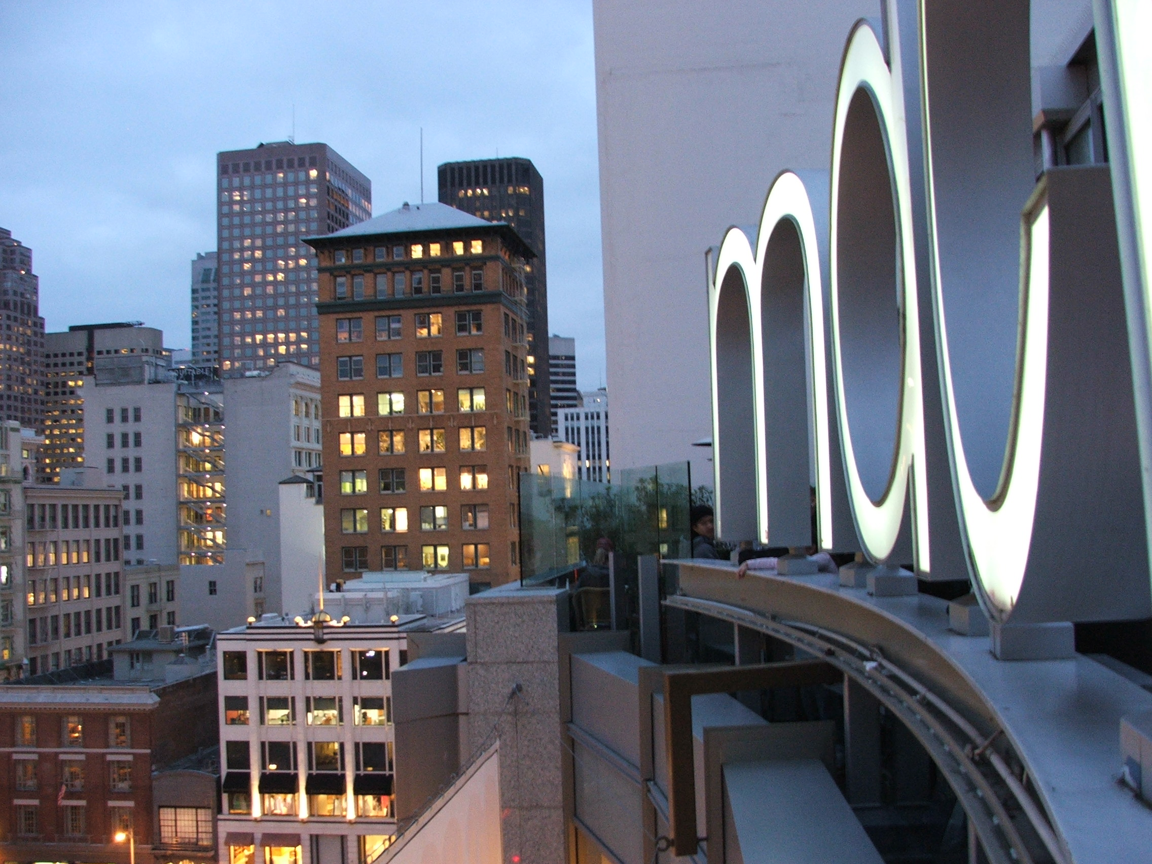 View from the top of Macy's West in San Francisco California